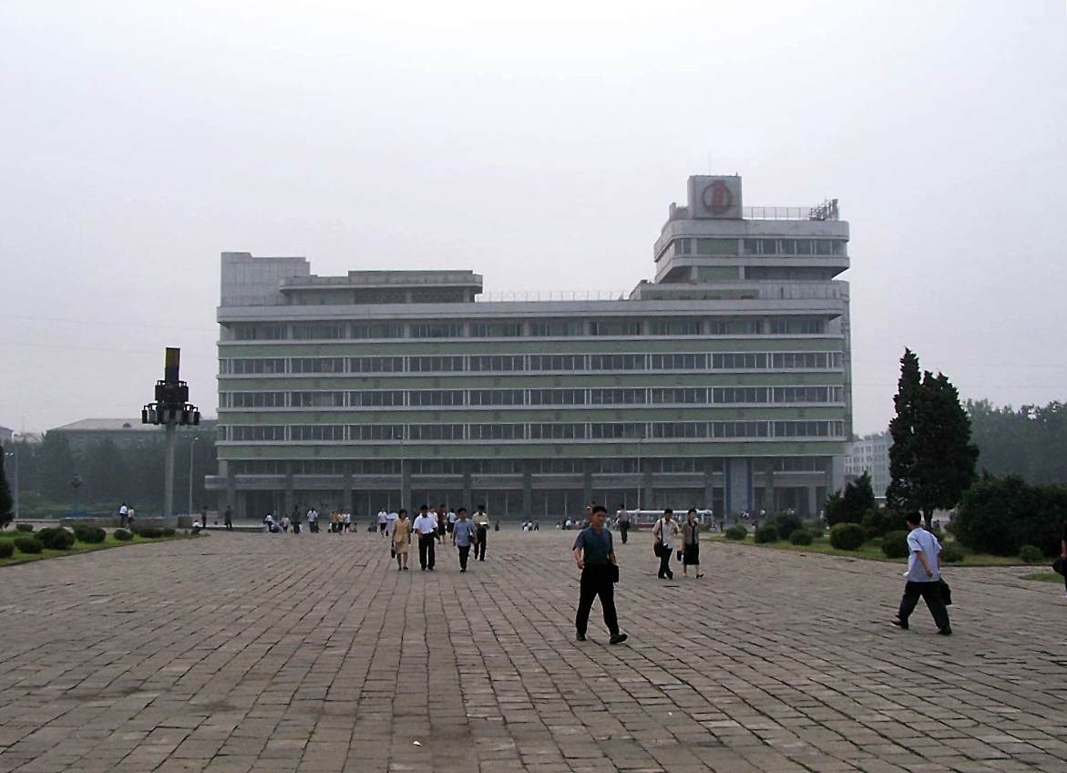 Pyongyang First Department Store